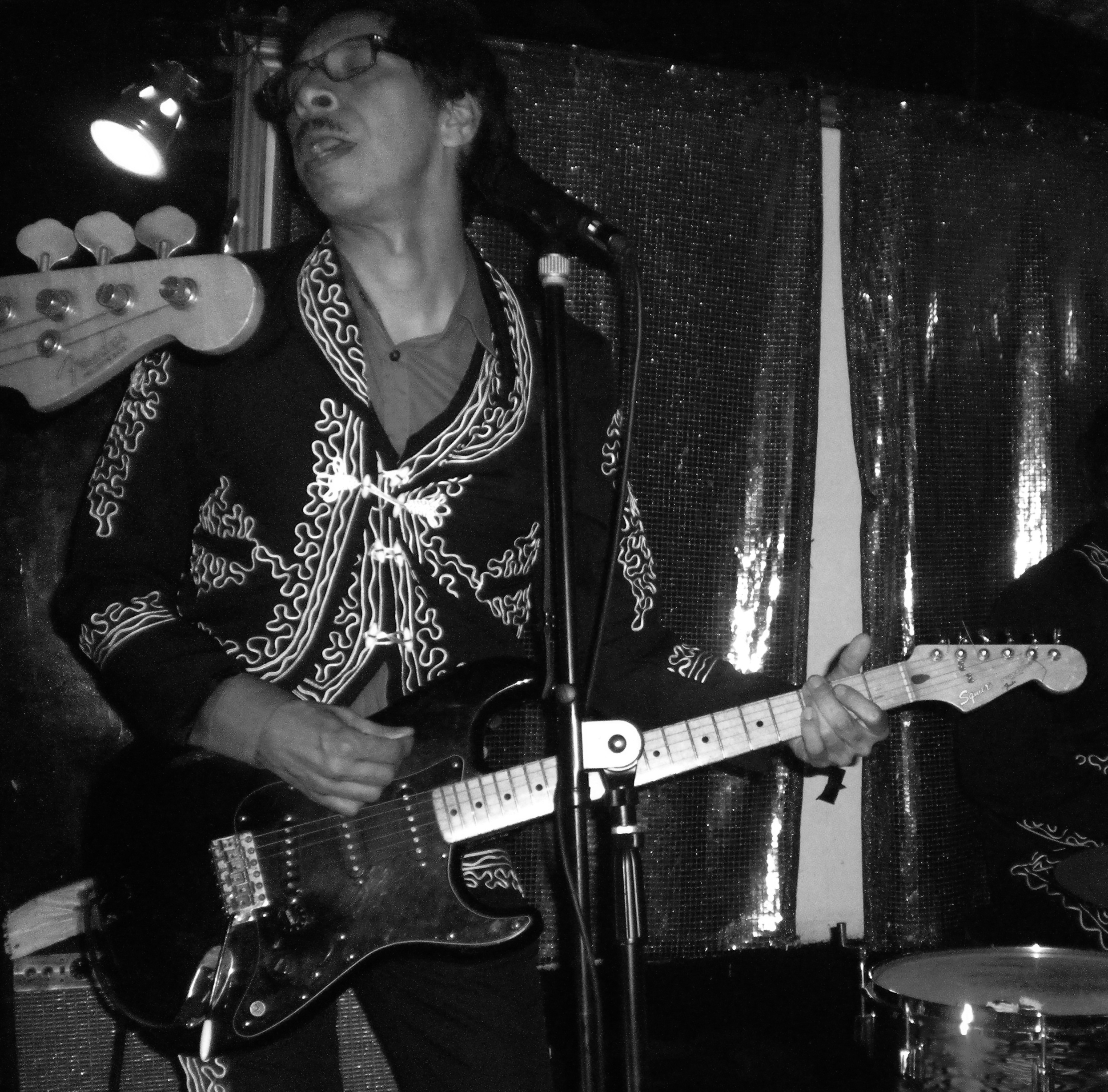 Kid Congo Powers performing live with the Pink Monkey Birds in Dijon, France, December 2009.